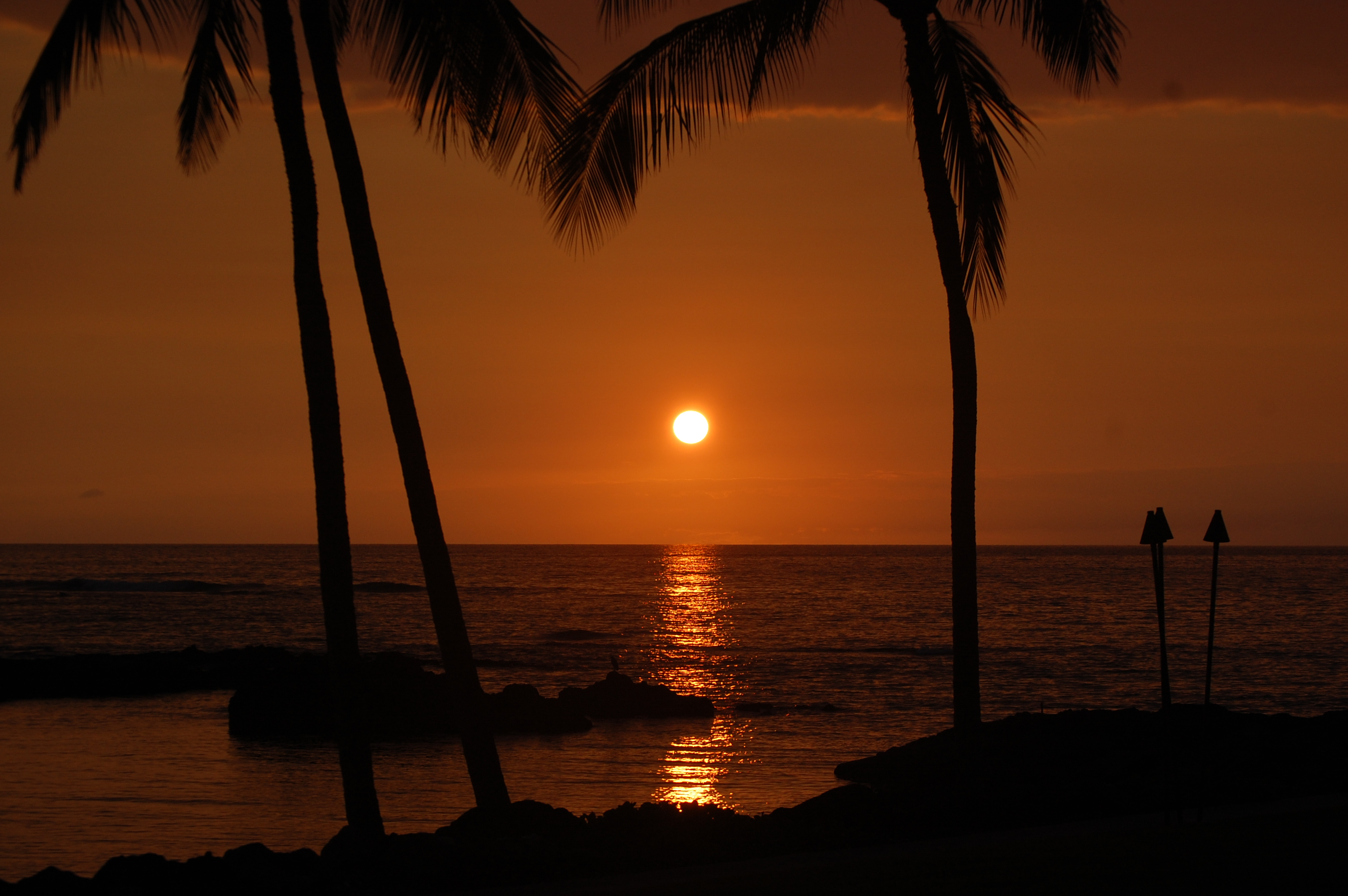 Sunset over the Pacific Ocean viewed from Kona, HI